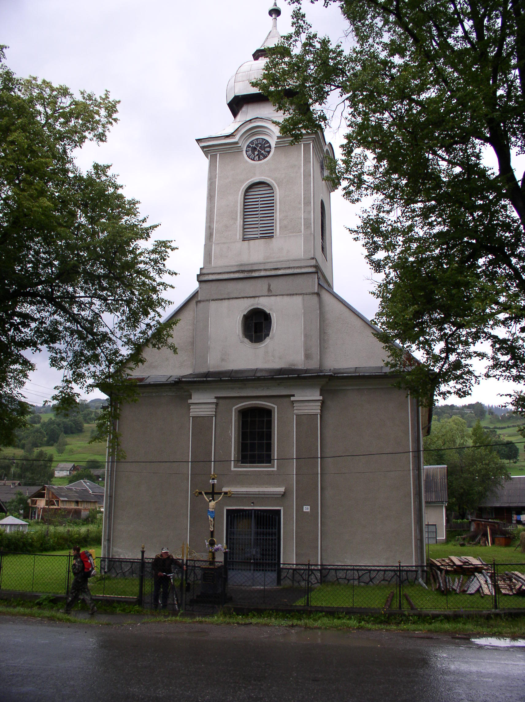 Church of Saints Peter and Paul Yasinya, Ukraine.